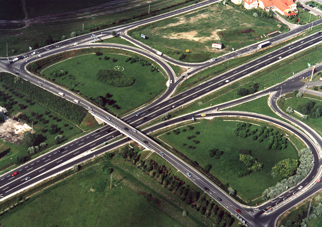 M5 freeway - Hungary - Lajosmizse.